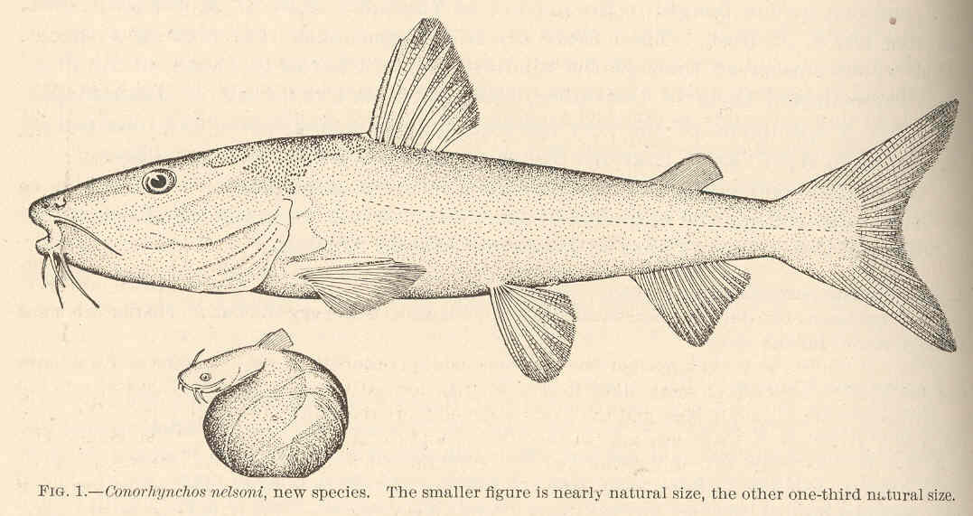 Conorhynchos nelsoni, new species., , Subject: Conorhynchos Tag: Fish